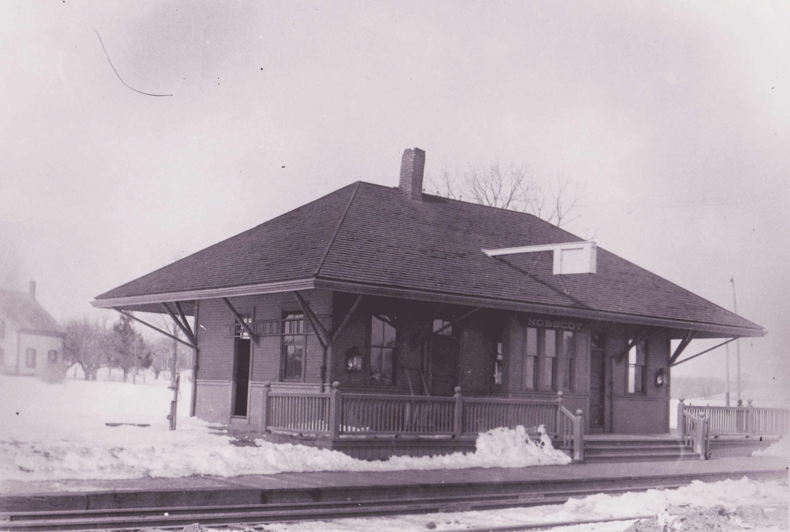 Nobscot (North Framingham) railroad station around 1910